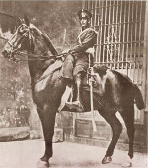 Horse Guard (Mounted Police) of the Security Corps of the Republic between the years 1924 - 1937